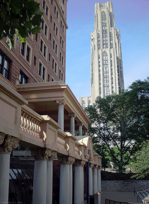 The William Pitt Union and Cathedral of Learning at the University of Pittsburgh. photo by Michael G White